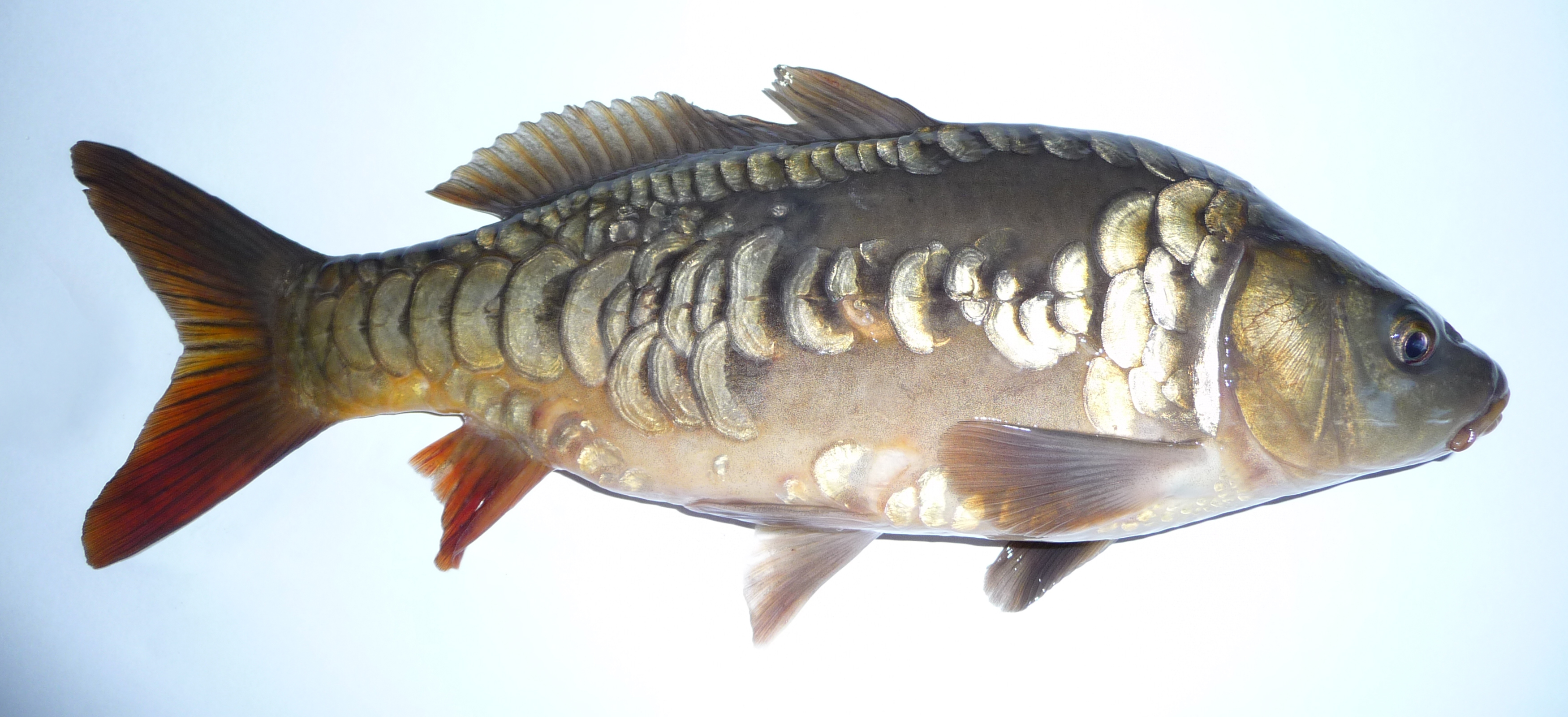 Mirror carp